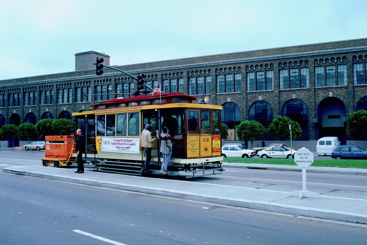 During the 1987 San Francisco Historic Trolley Festival, ex-Market Street Railway car 578 (built in 1895 or 1896) is laying over on the Embarcadero across from Pier 39, during a six-week demonstration streetcar service along the Embarcadero (Sep. 11 to Oct. 17, 1987). Because there was no regular streetcar service here at the time, the demo service ran along disused freight tracks of the San Francisco Belt Railroad, and the electricity to power the car's motor came from a diesel-powered generator on a cart attached to the streetcar's south/east end. Note the temporary wooden sign on the loading island, reading "Board trolley here for Embarcadero Center".